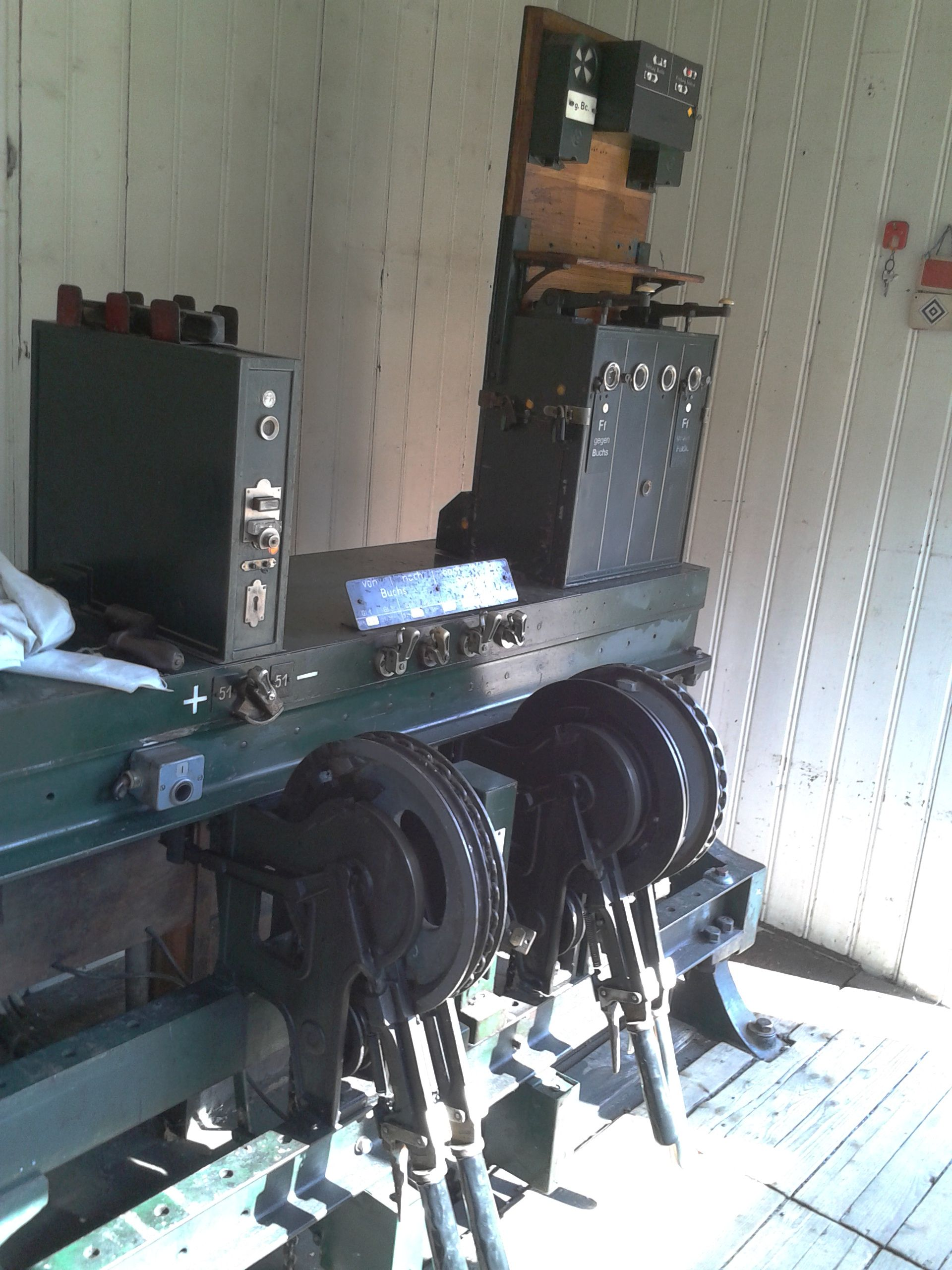 Interlocking in the Railwaystation Nendeln in the Principality of Liechtenstein.